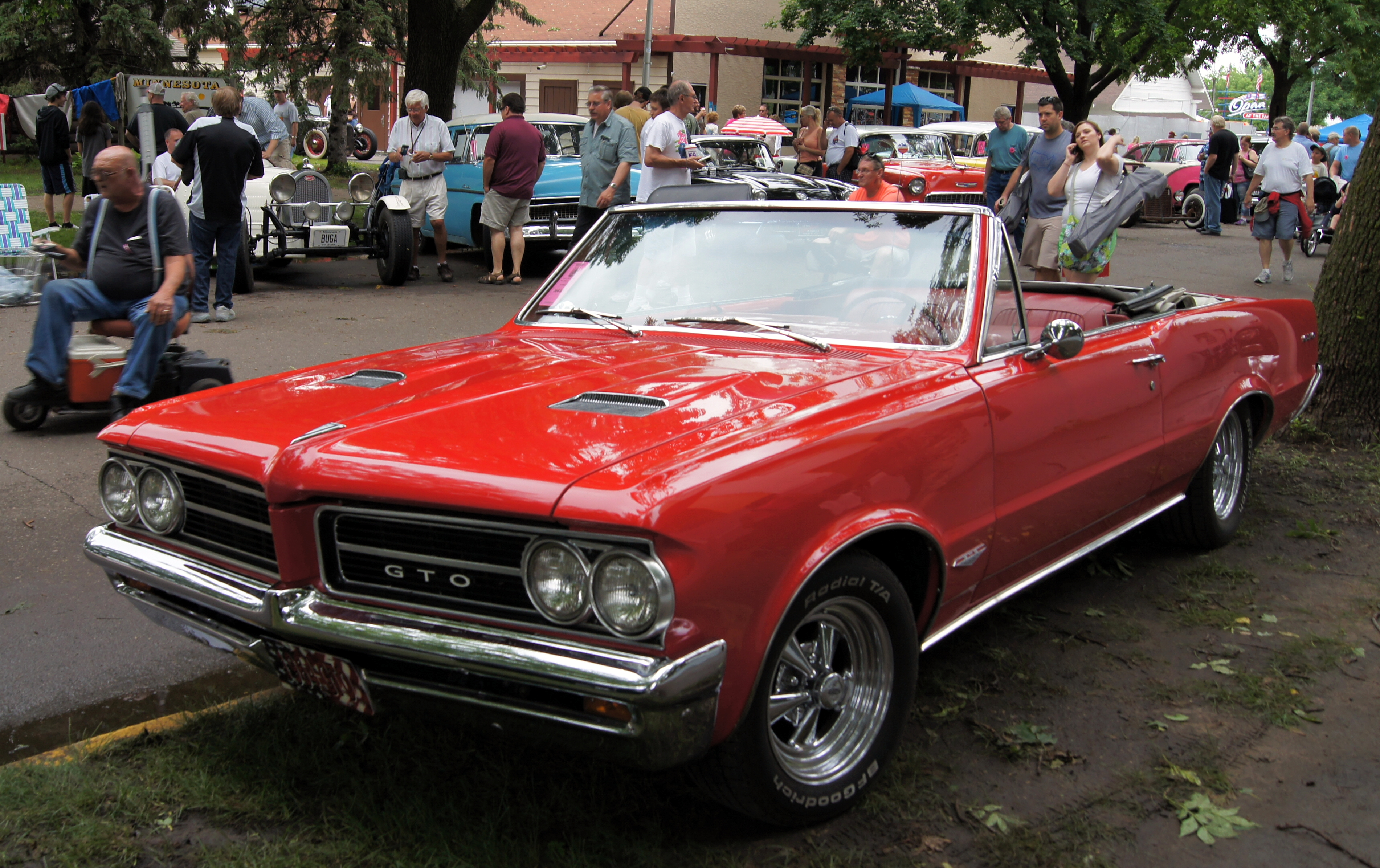 MSRA “BACK TO THE 50′s” 40th ANNIVERSARY June 21-23, 2013 State Fairgrounds St. Paul Minnesota More Car Pictures